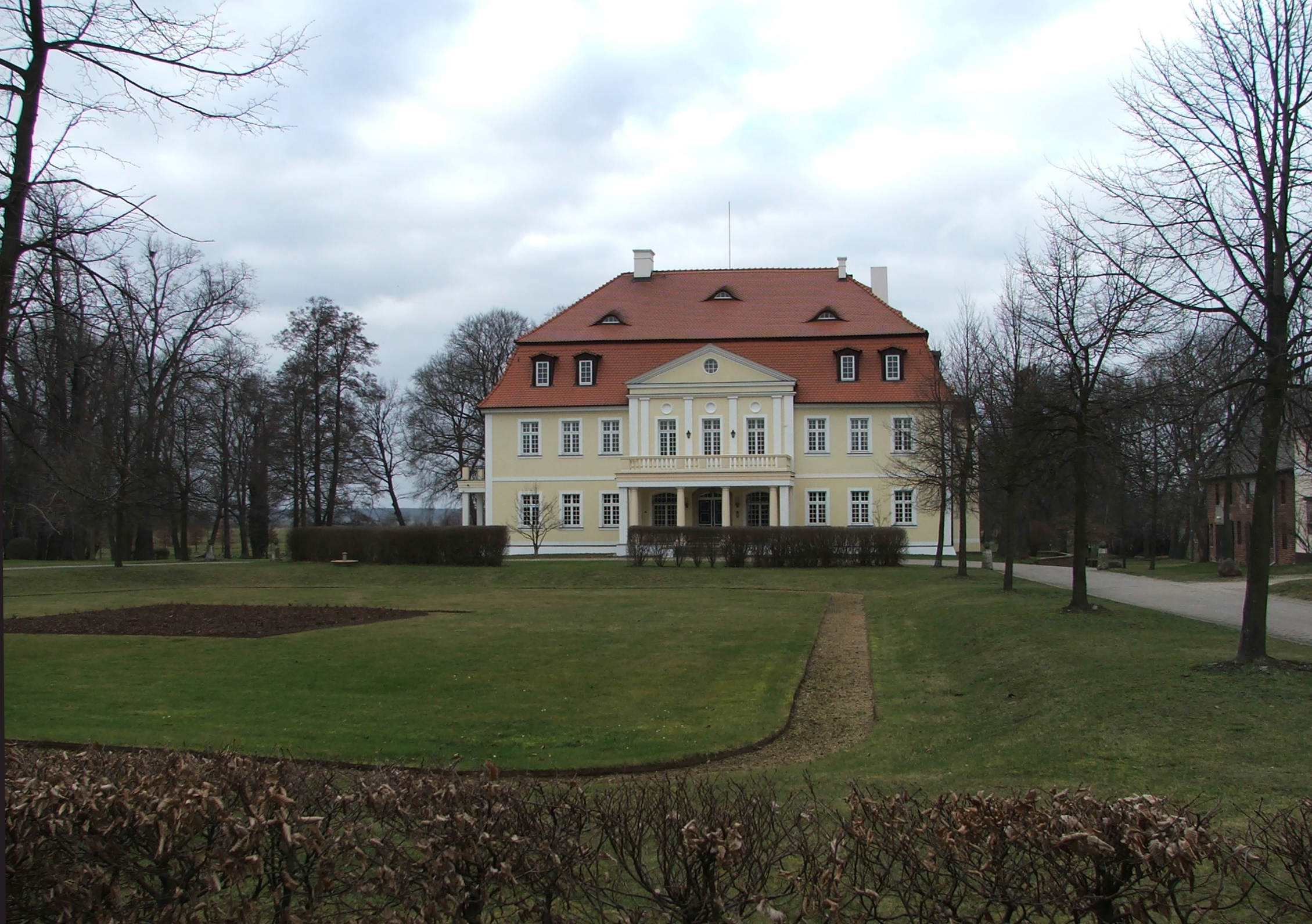 Castle in Stechau